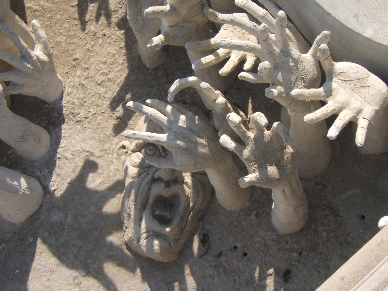 Wat Rong Khun - Detail of the miserables in hell sculpture - Chiang Rai, Thailand